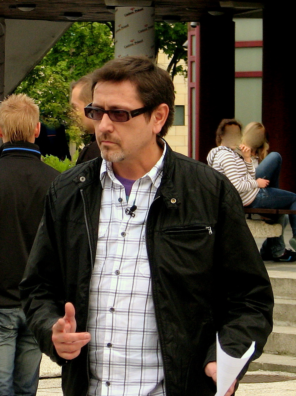 Andrzej Sołtysik during XXXV Polish Film Festival in Gdynia 2010.